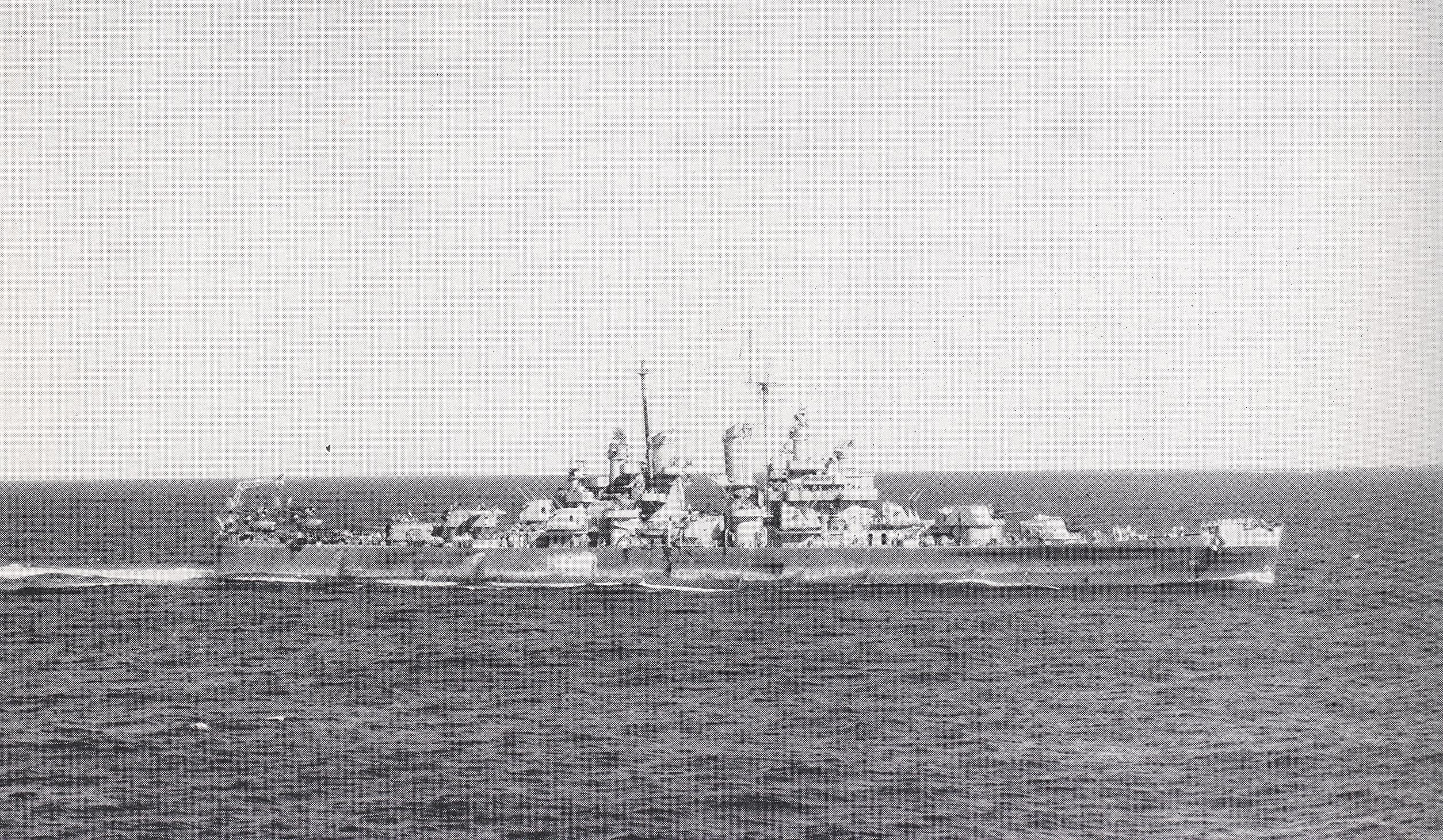 The U.S. Navy light cruiser USS Dayton (CL-105) underway at sea, in 1945. She is painted in Camouflage Measure 22.